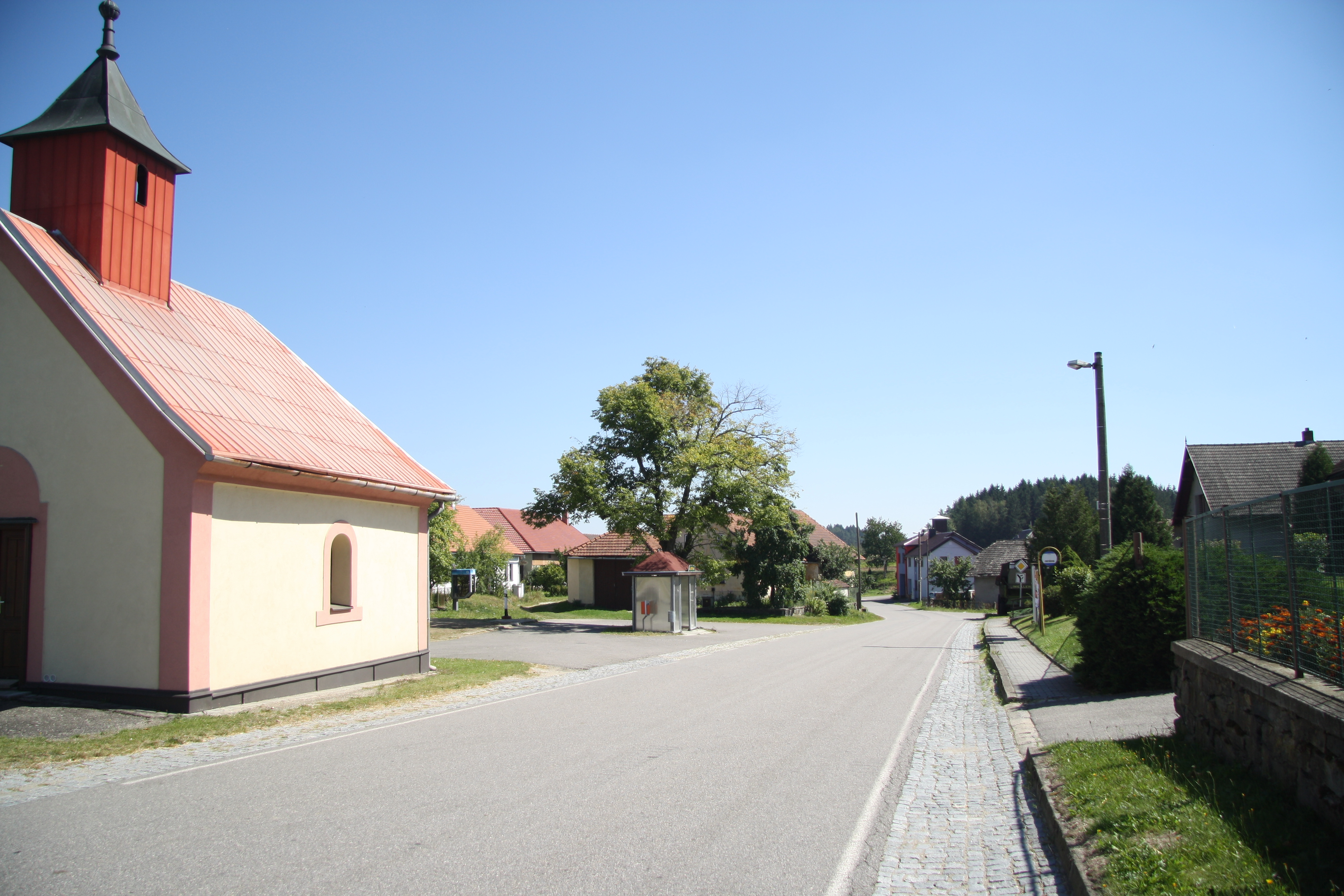 Center of Kotlasy, Žďár nad Sázavou District.